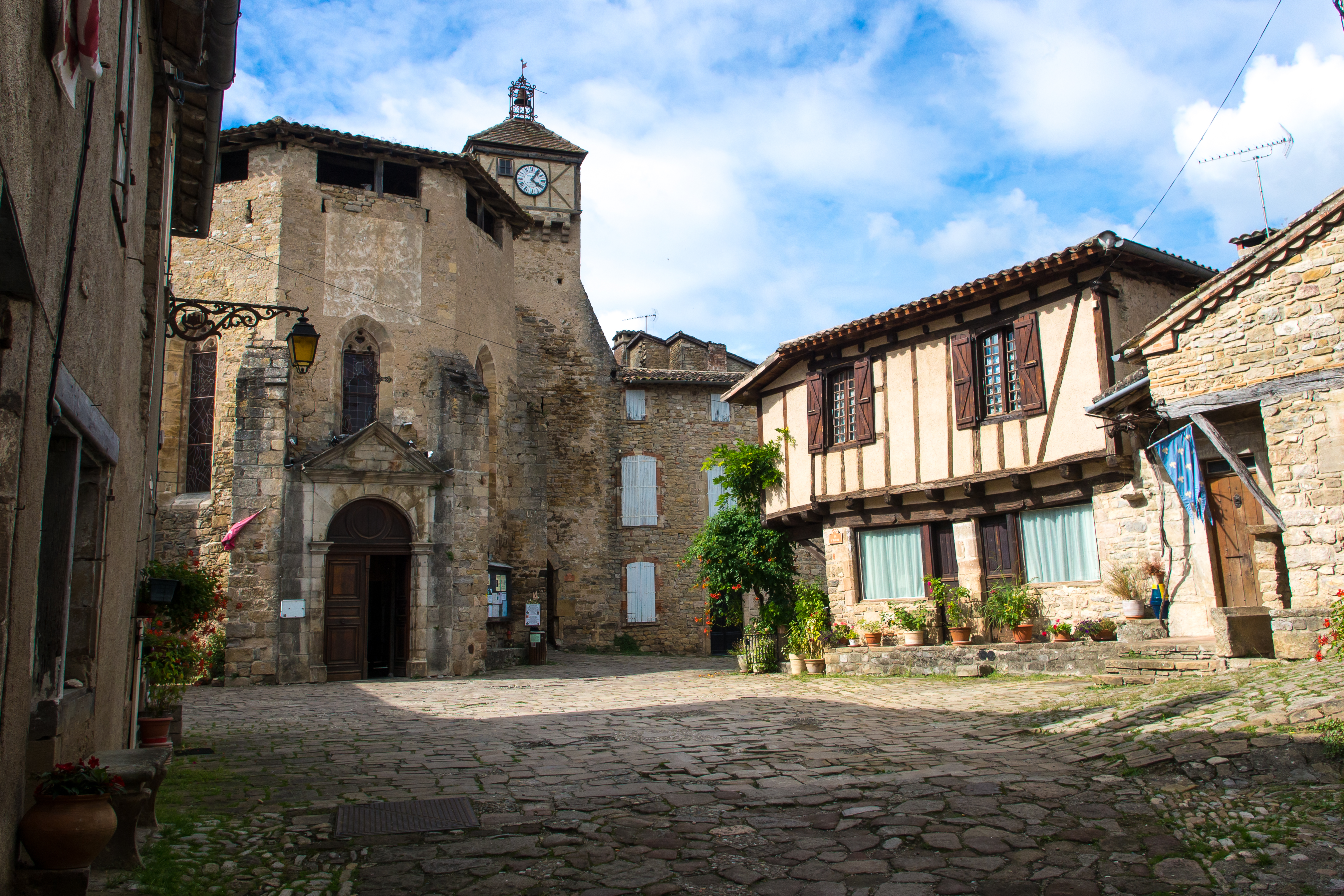 Penne.